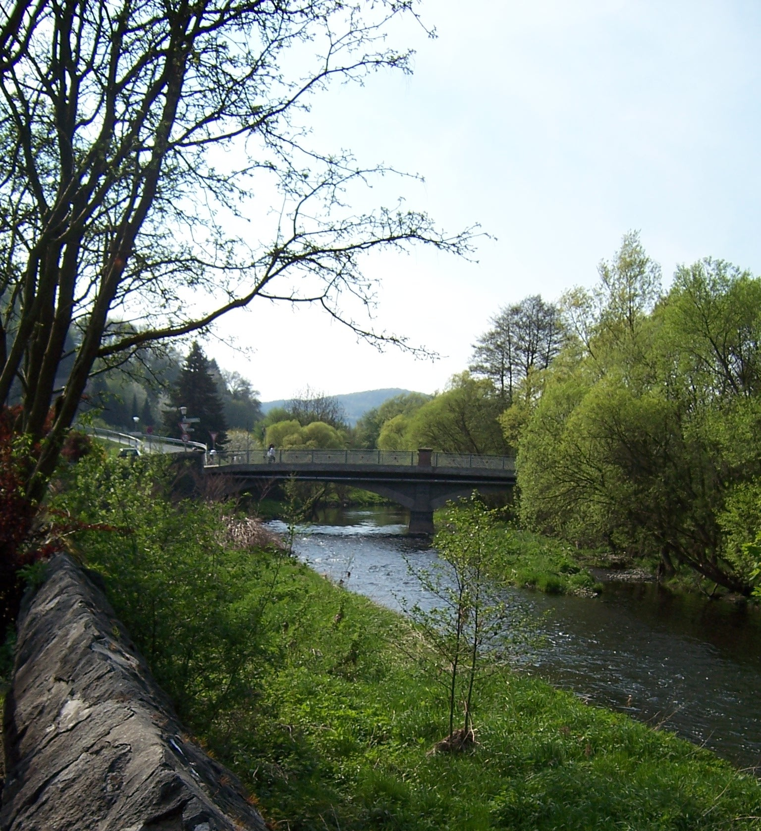 Sachsenhaeuser Bruecke – Bridge across the Lahn at Biedenkopf